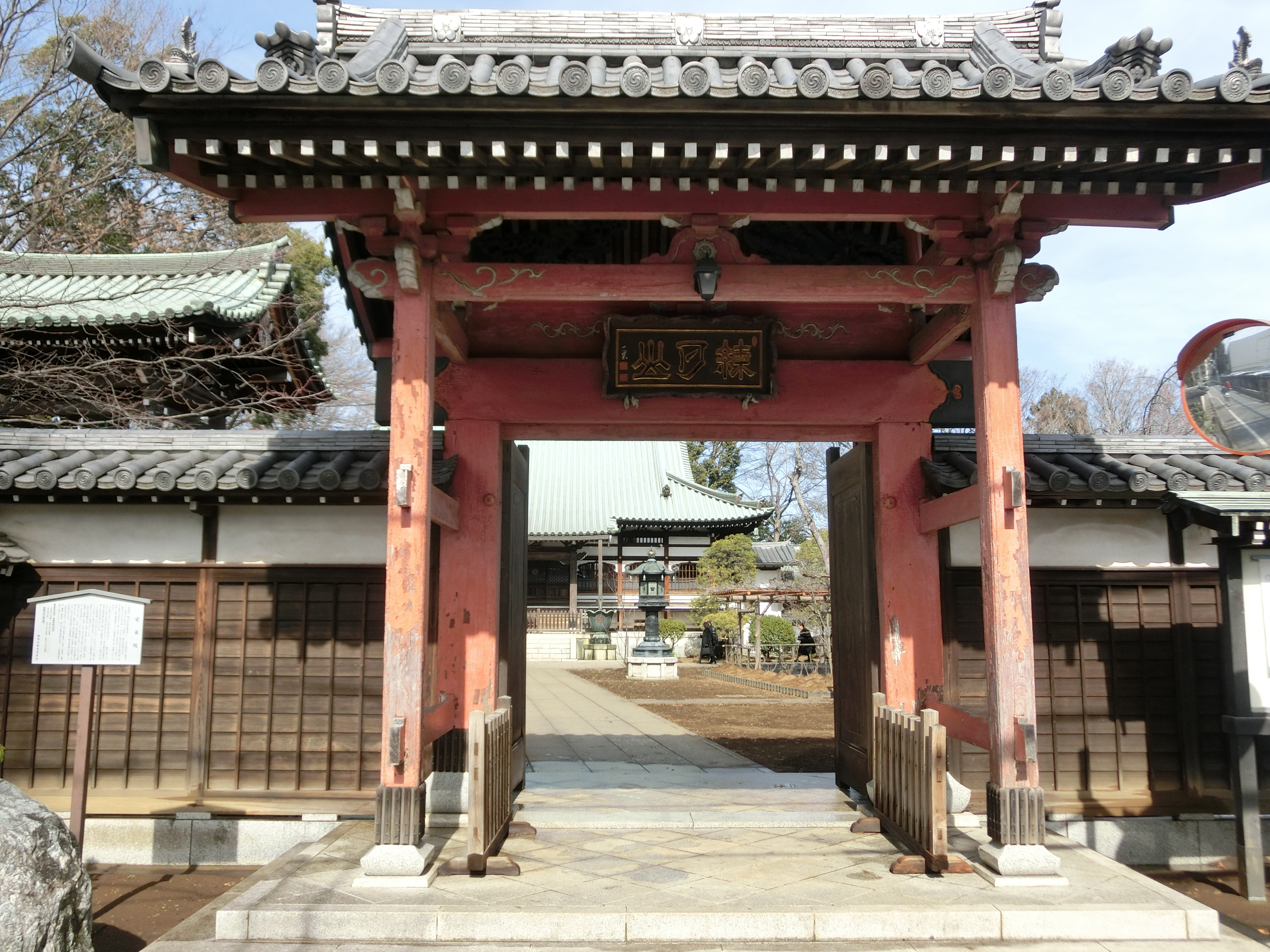 Aizen-in (Nerima)